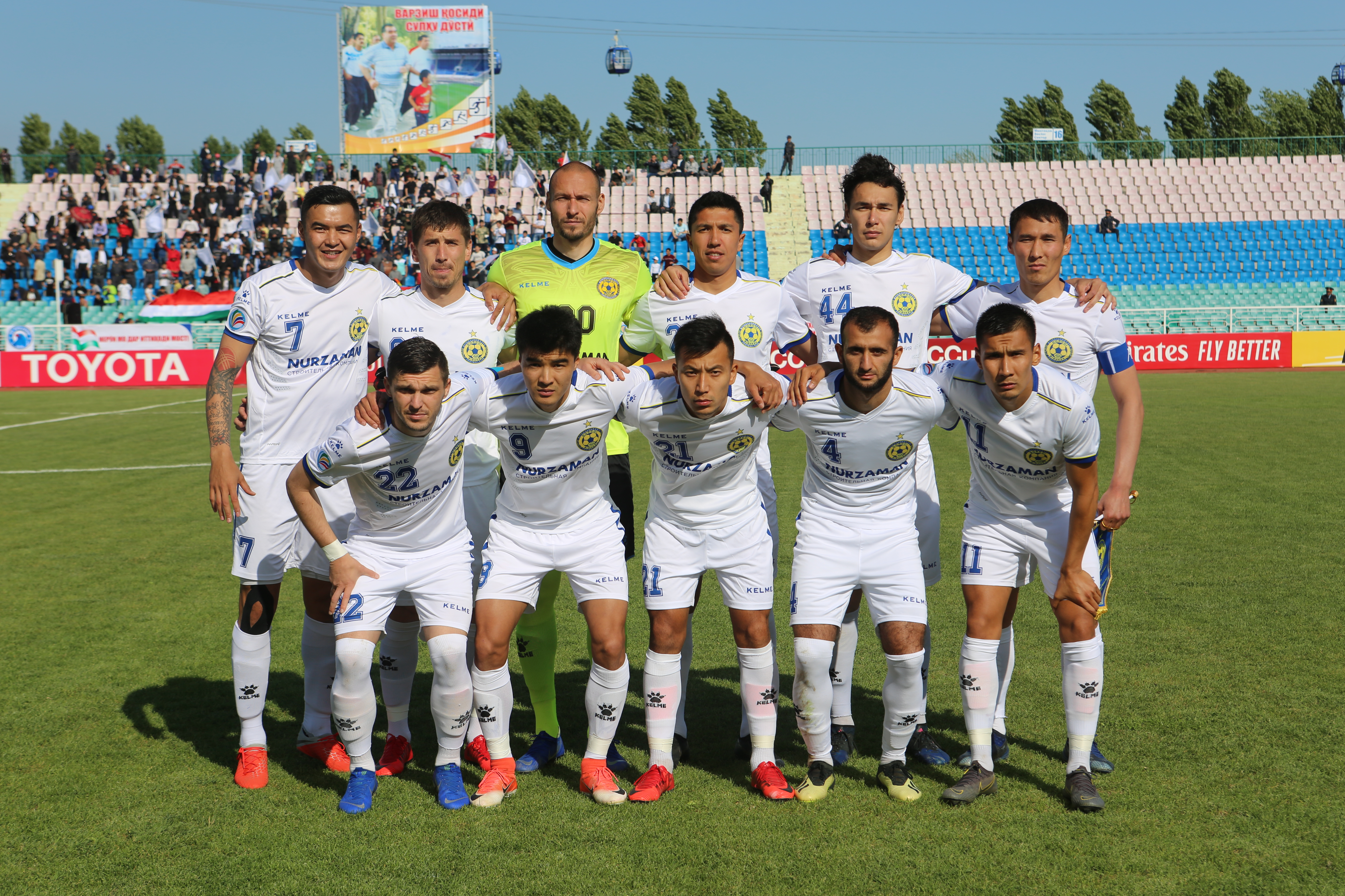 "Dordoi", AFC Cup 2019 - Khujand, April 17